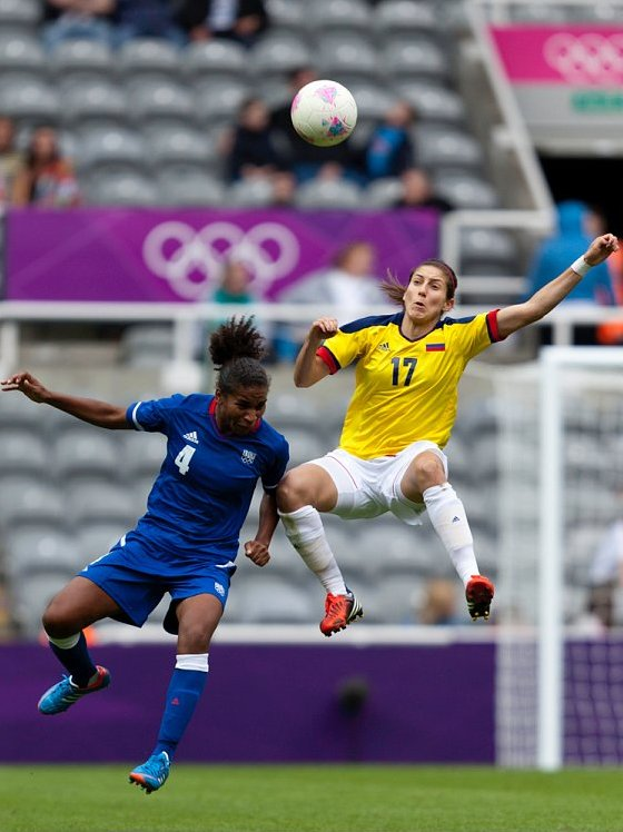 Melissa Ortiz (Colombia) rises high to win aerial combat with Laura Goerges (France)- France v Colombia - Womens Olympic Football Tournament London 2012 Group G at St. James Park, Newcastle - 31/7/2012 - (George Ledger Sports Photography)